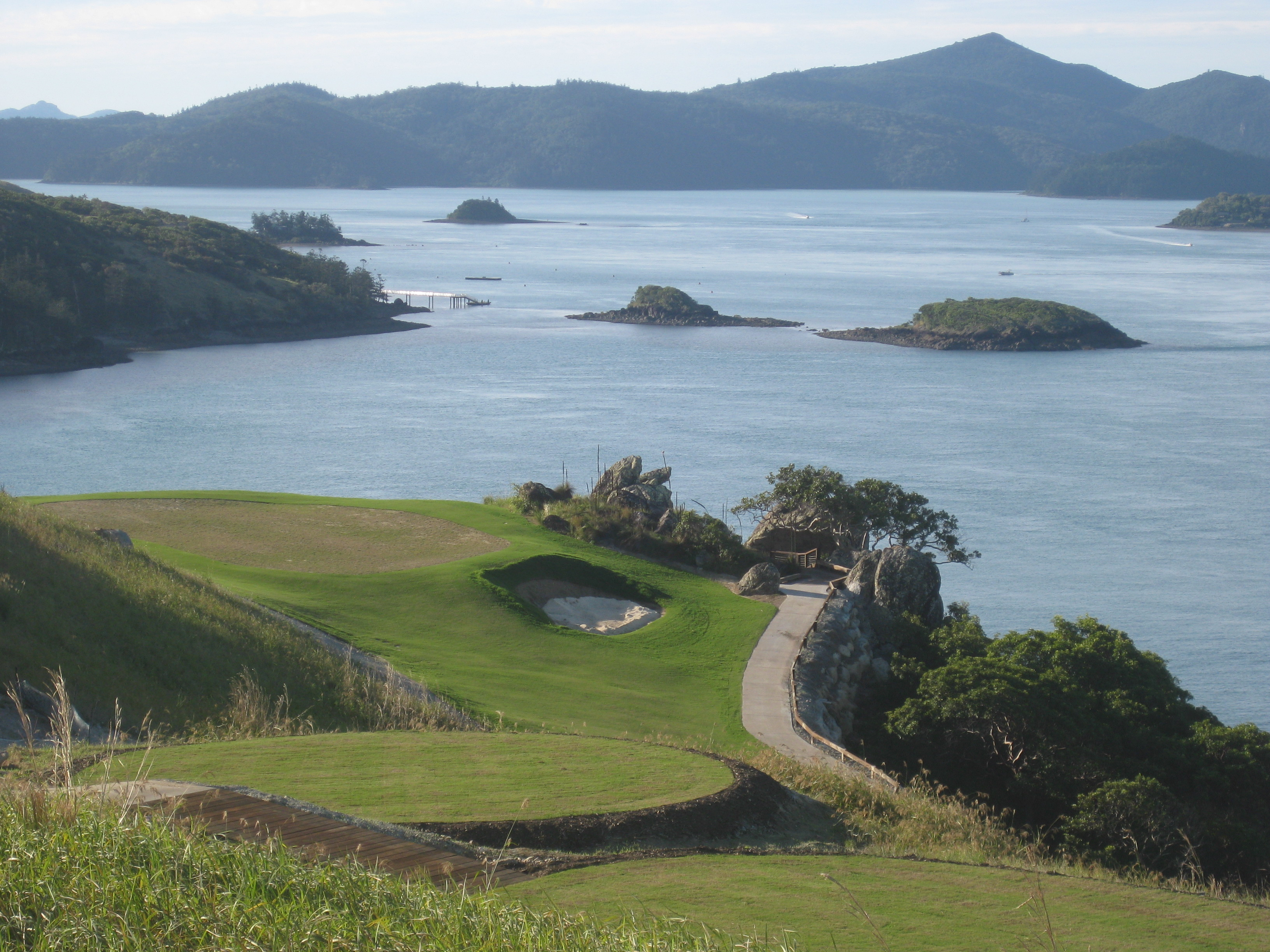 16th Hole Hamilton Island Golf Club